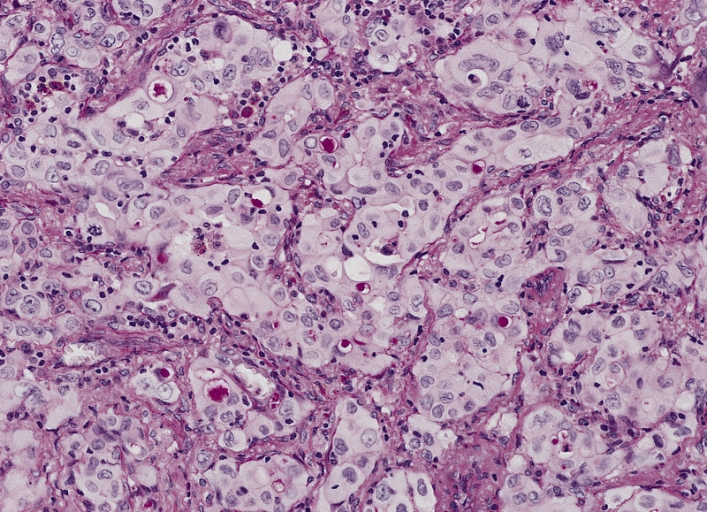 LOWER RESPIRATORY TRACT: SOLID ADENOCARCINOMA WITH MUCIN PRODUCTION This poorly differentiated (solid) adenocarcinoma shows many cells with mucin vacuoles stained with digested PAS. The vacuoles were difficult to see on routine sections, and the case had originally been classified as large cell carcinoma.